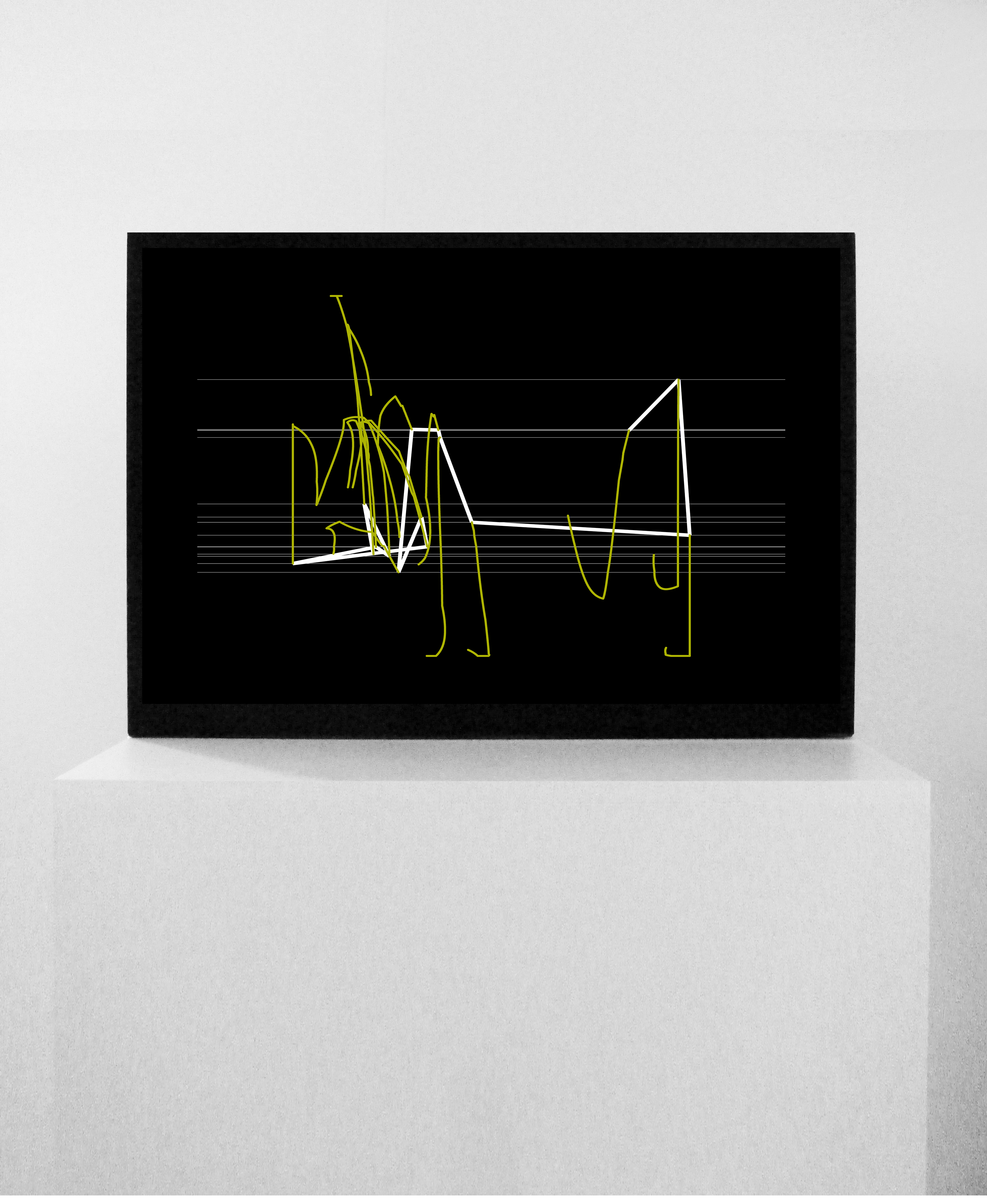 Work of Art "P2210-C" by Manfred Mohr (2015). LCD screen-MacMini. 37cm x 63cm x 11cm. Owned by the artist.